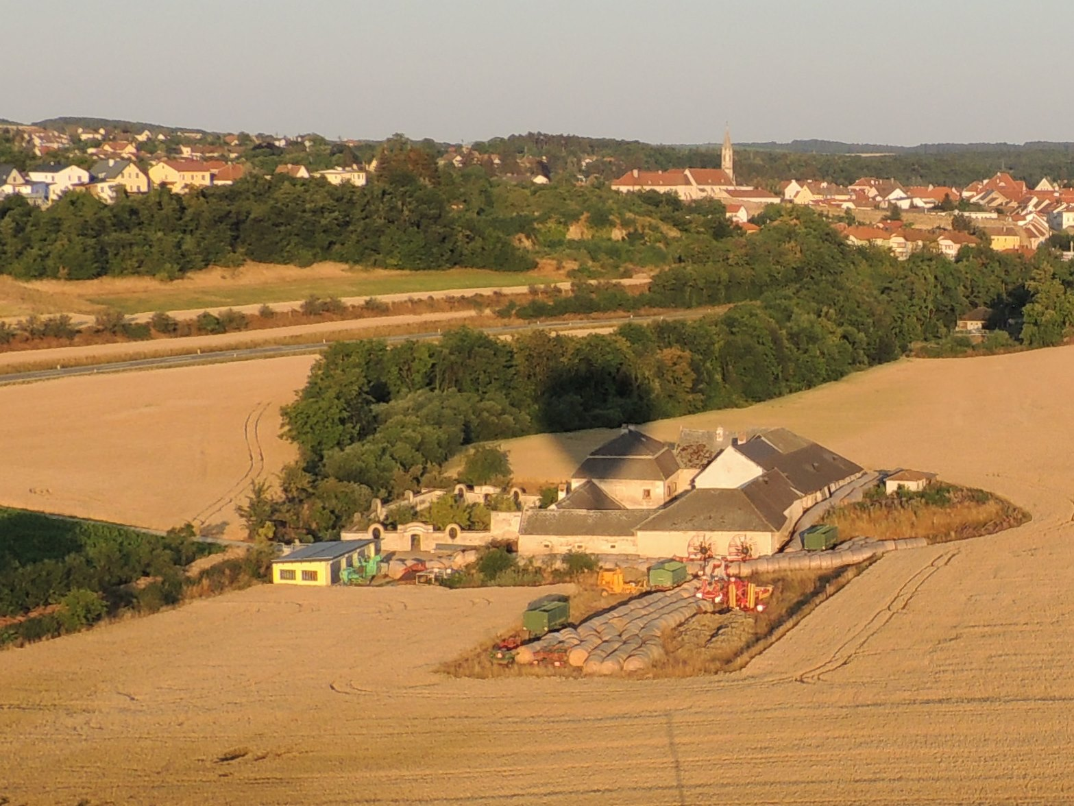 Vogelsangmühle near Eggenburg, view from balloon (see shadow)